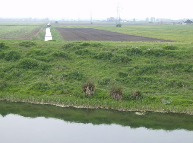 Site of Sir Gilbert Heathcote's Tunnel